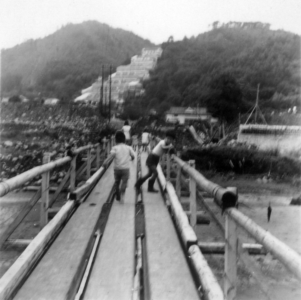 The damage of Kanogawa Typhoon in 1958. This photo was taken at near the Ohito bridge. These are located in Izunokuni city in Shizuoka prefecture, Japan.